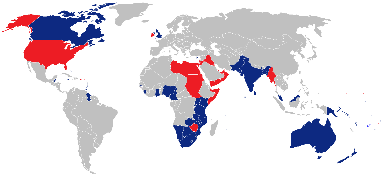 Members and prospective members of the Commonwealth of Nations.